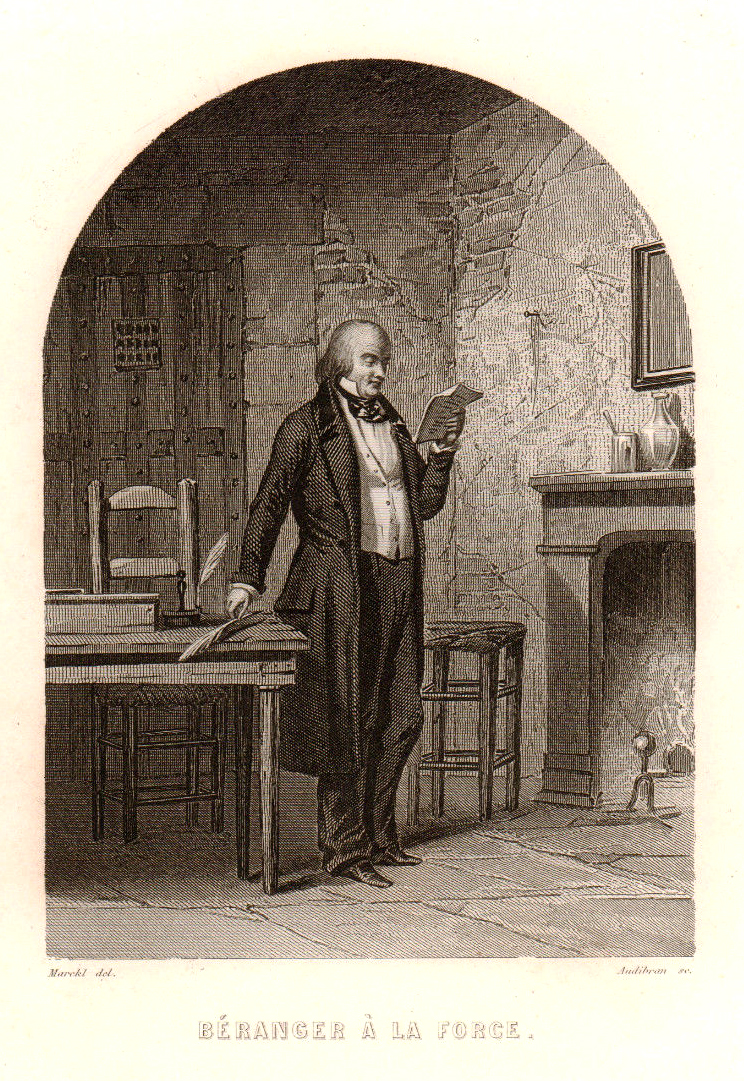 French Singer Pierre-Jean de Béranger in Jail at La Force Prison in Paris.